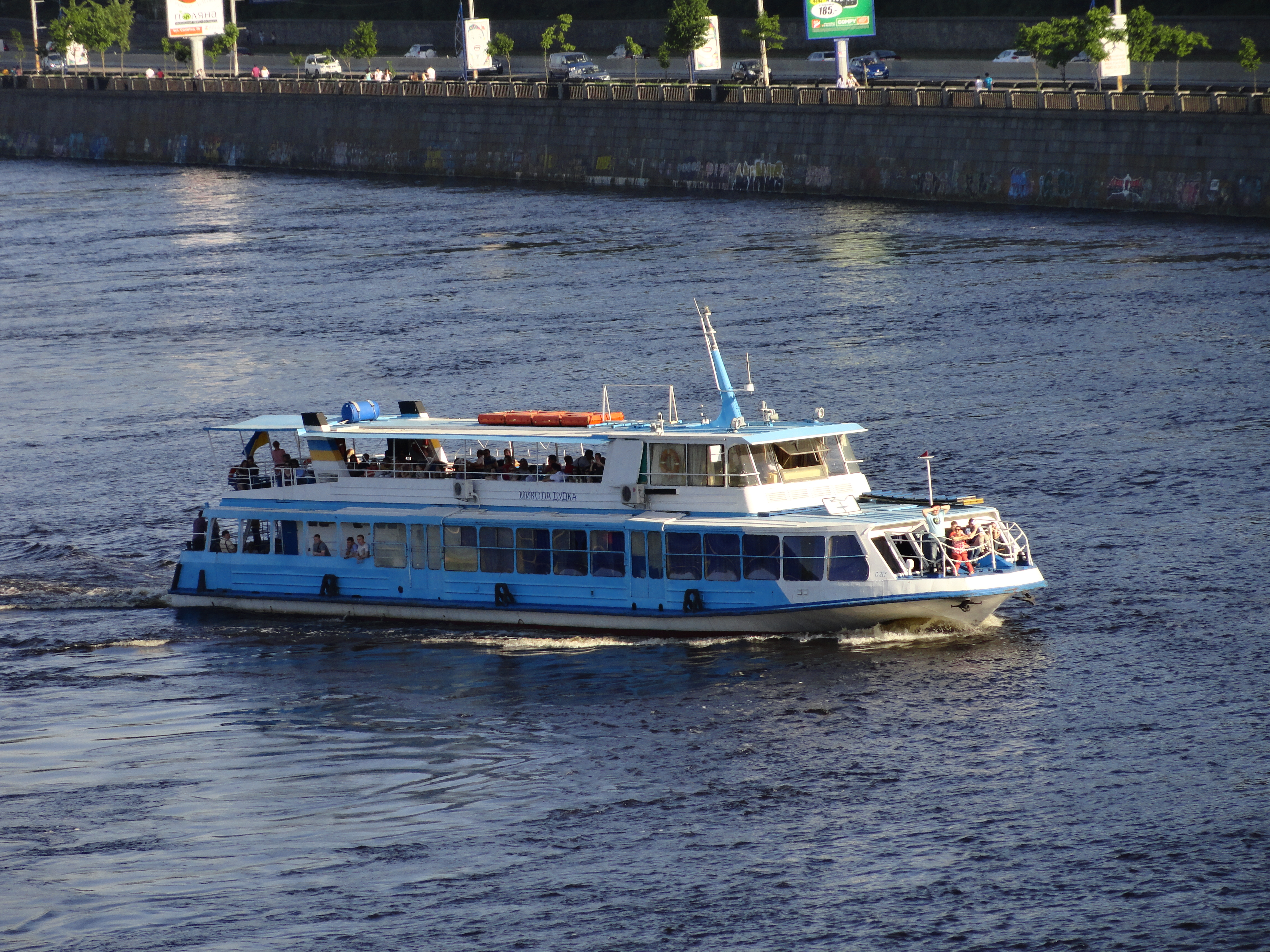 River boat Mykola Dudka, a type Kashtan on the Dnieper River near Kyiv, Ukraine.